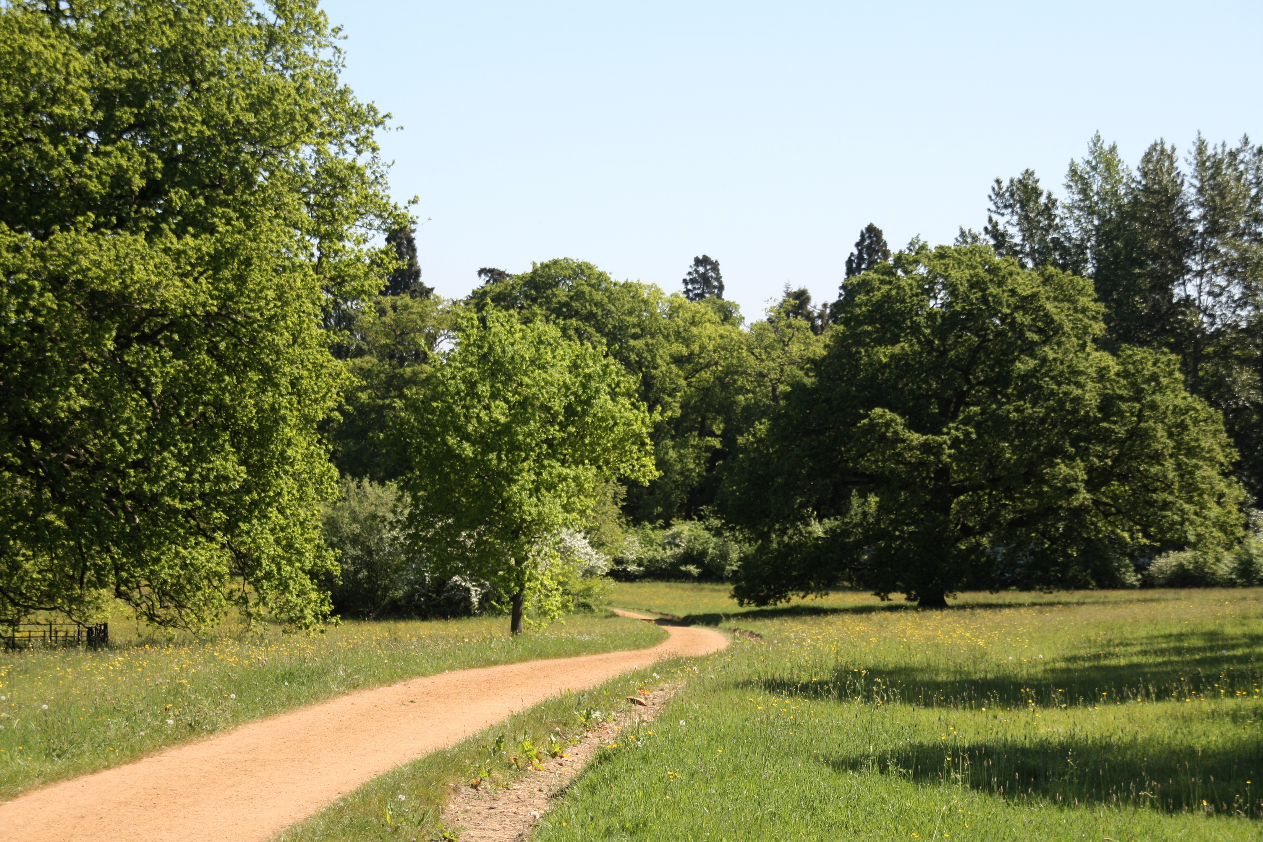 A path in Harcourt Arboretum, Nuneham Courtenay, Oxfordshire, in summer with meadow flowers and trees including oak